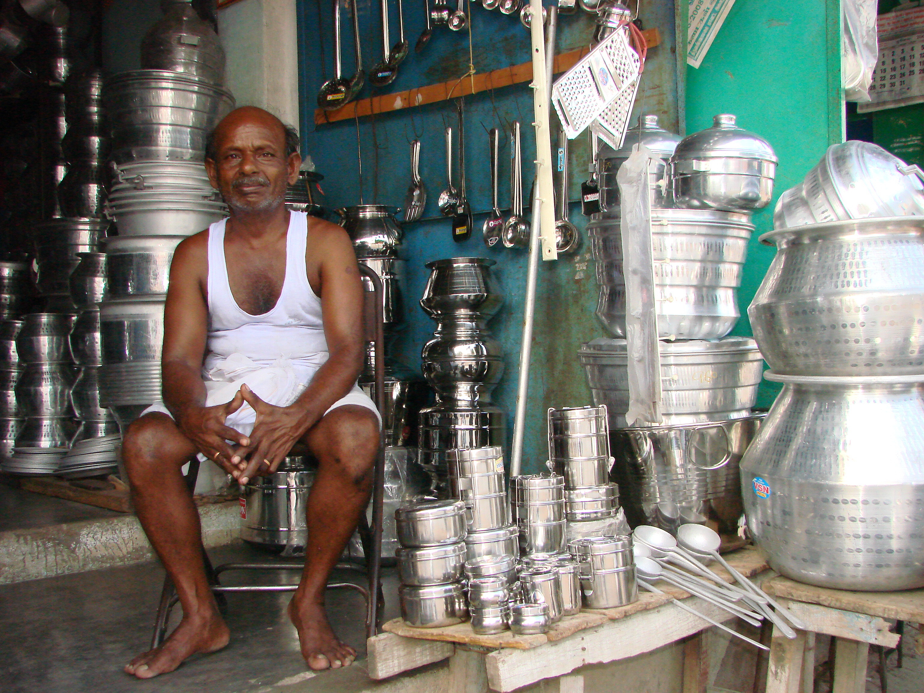 Seller of steel pots and pans in Tiruvannamalai, India. July 2008.